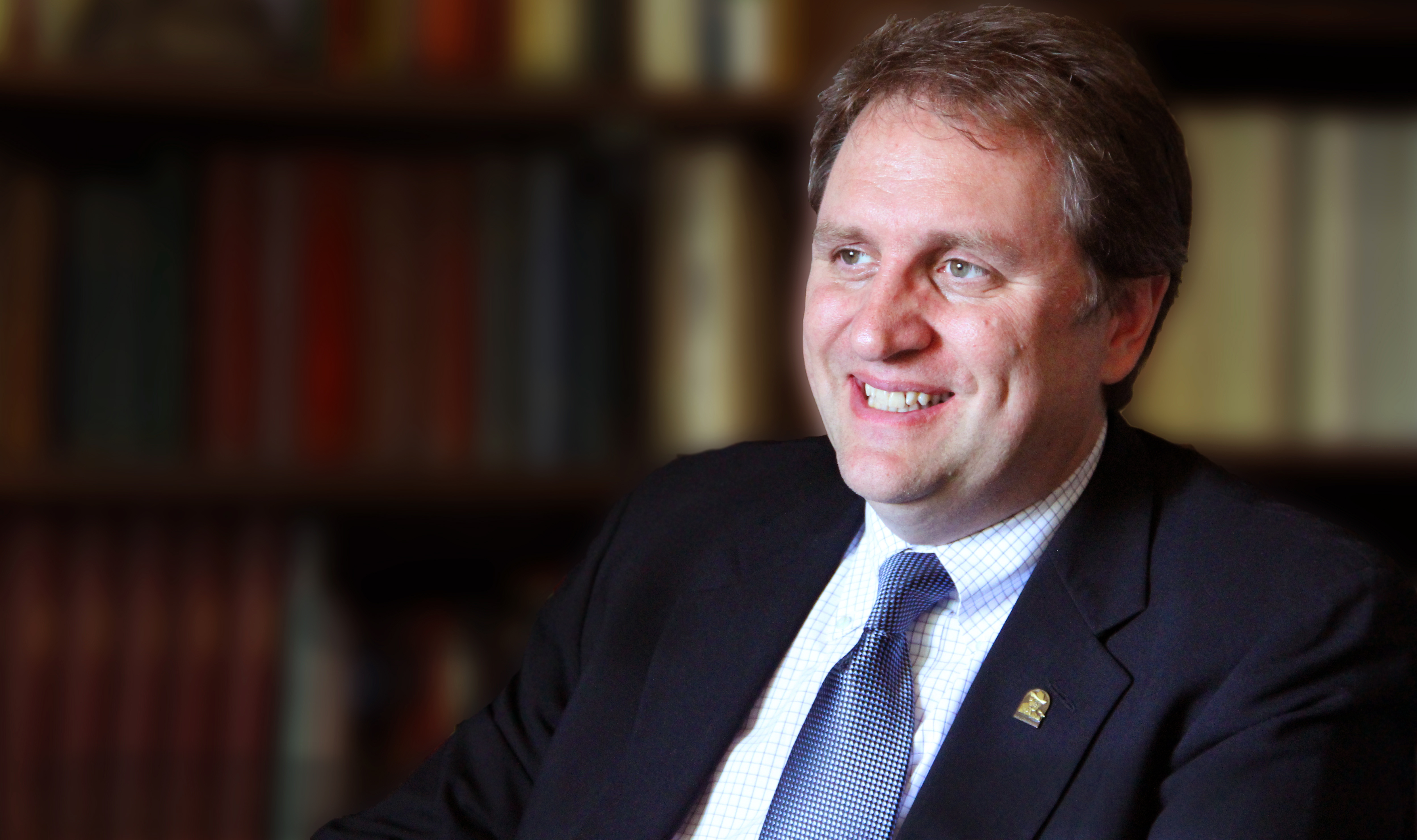 Dale Ahlquist, president of the American Chesterton Society